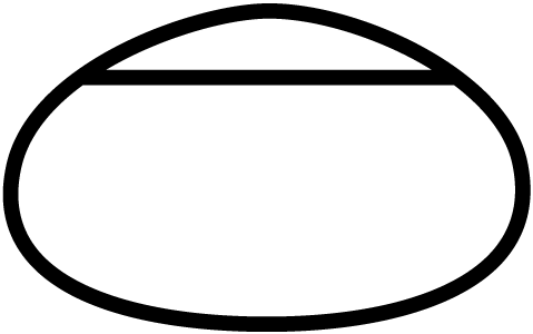 Mapa do Chicagoland Speedway